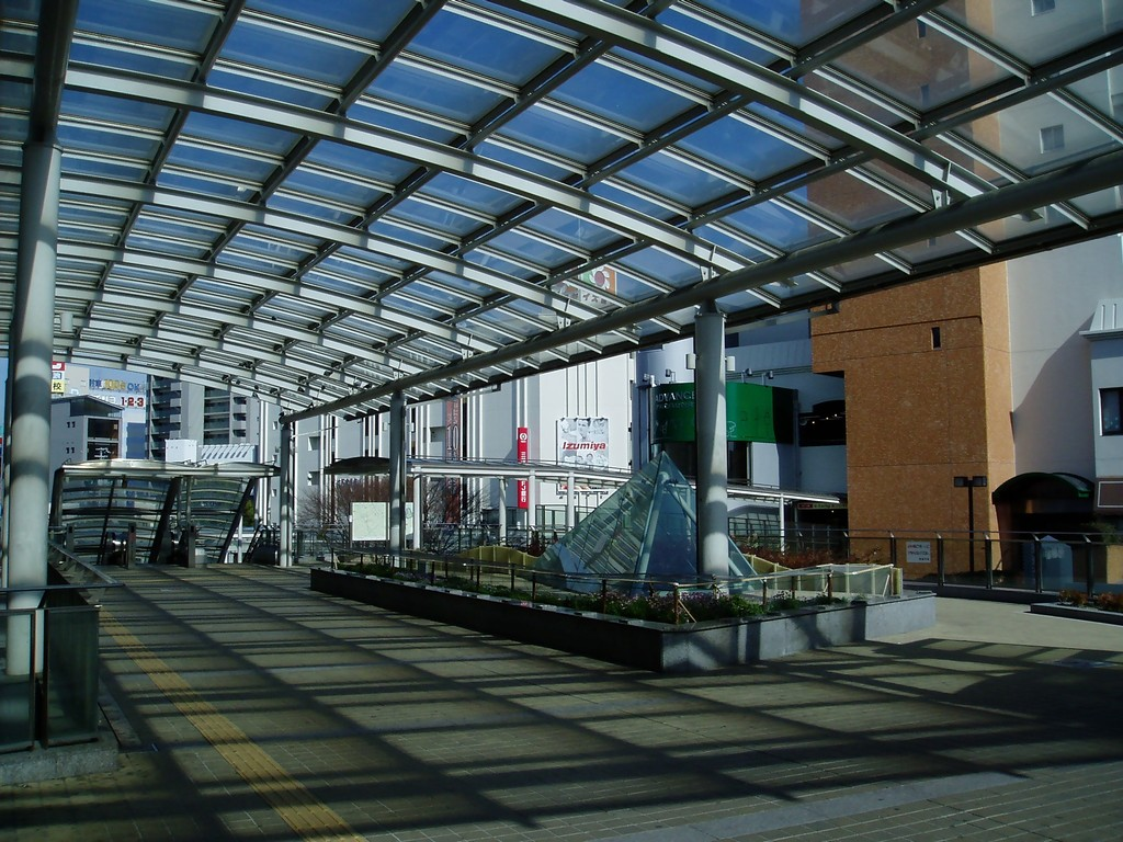 a pedway at Neyagawa-shi Station(Keihan-Railway-Main-line)